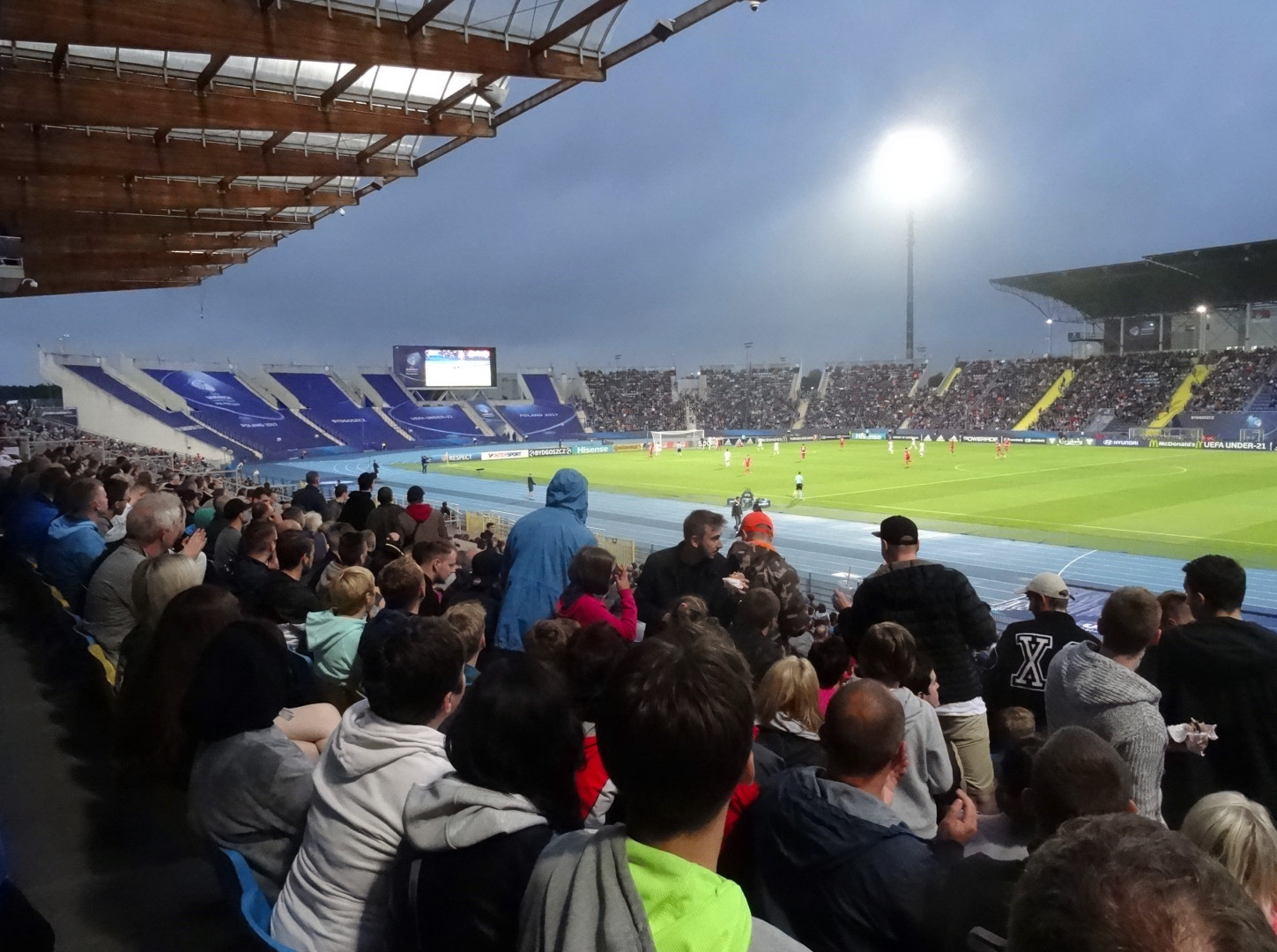 UEFA European U-21 Championship Poland 2017. Group B Spain - Serbia (1:0), Zdzisław Krzyszkowiak Stadium in Bydgoszcz